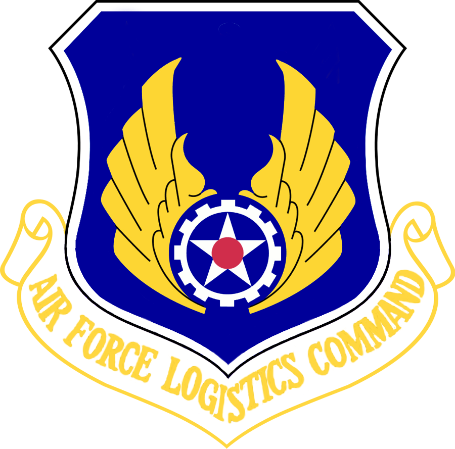 United States Air Force Logistics Command emblem. Made with Photoshop.